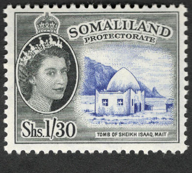 Somaliland Protectorate stamp depicting the tomb of Sheikh Isaaq, (Mait, c1950)